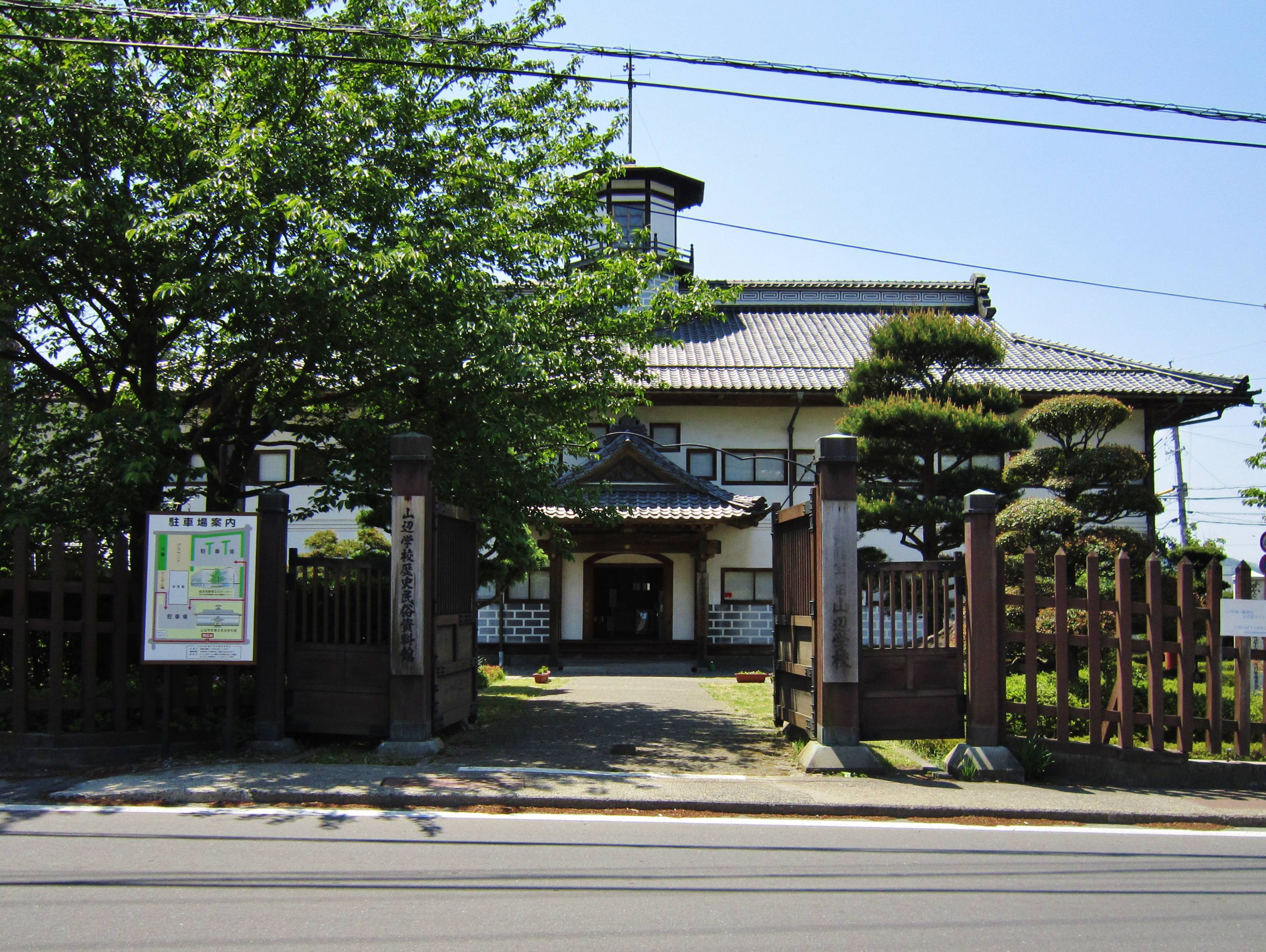 Former Yamabe School.